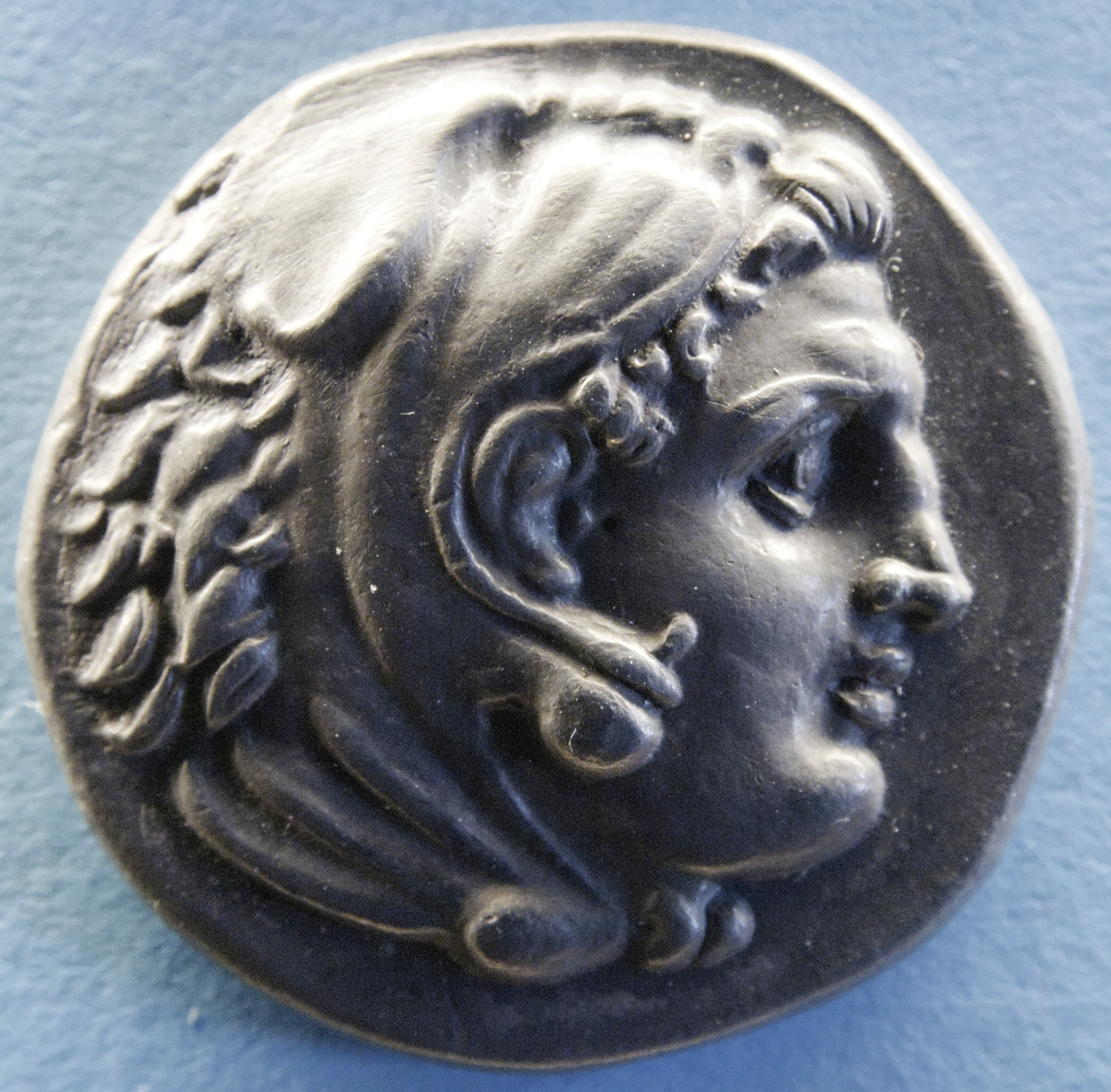 Tetradrachm with Alexander the Great.